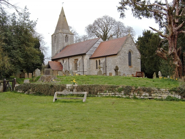 St Radegund's parish church, Maplebeck, Nottinghamshire, seen from the southeast